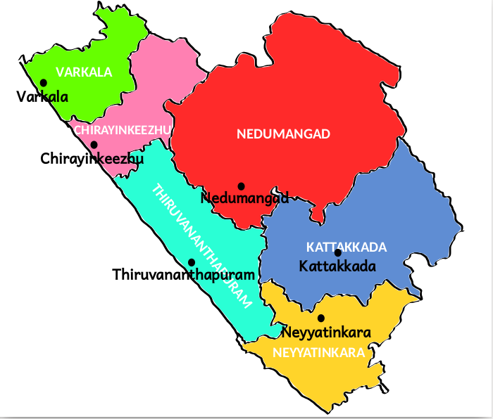 It is a political map of the subdistricts of Thiruvananthapuram district, Kerala, India